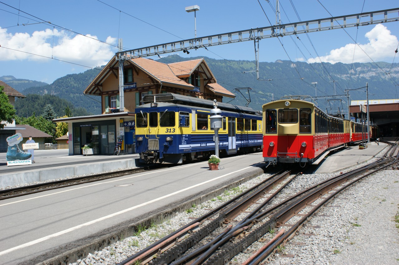 BOB train from Interlaken and Schynige Platte-Bahn (also owned by BOB) train in front of Wilderswil (Switzerland) railway station building